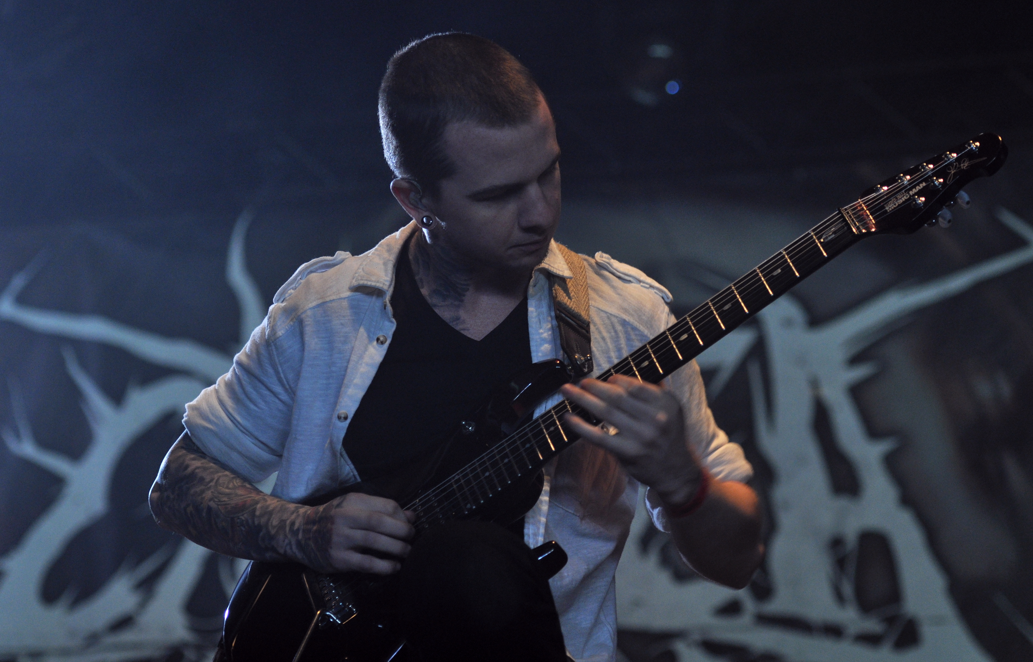 Chelsea Grin at Groezrock 2013